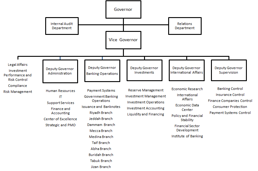 Organisation chart for SAMA (Saudi Arabian Monetary Agency